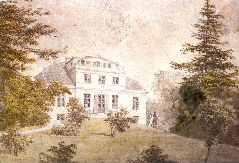 Ny Bakkegård viewed from the gardens at Bakkegårdsvej in Frederiksberg, Copenhagen, Denmark